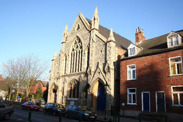 Bailgate Methodist Church, Lincoln, England, seen from the southwest. Opened in 1880. The houses to the right of the church are 18th-century and Grade II listed.